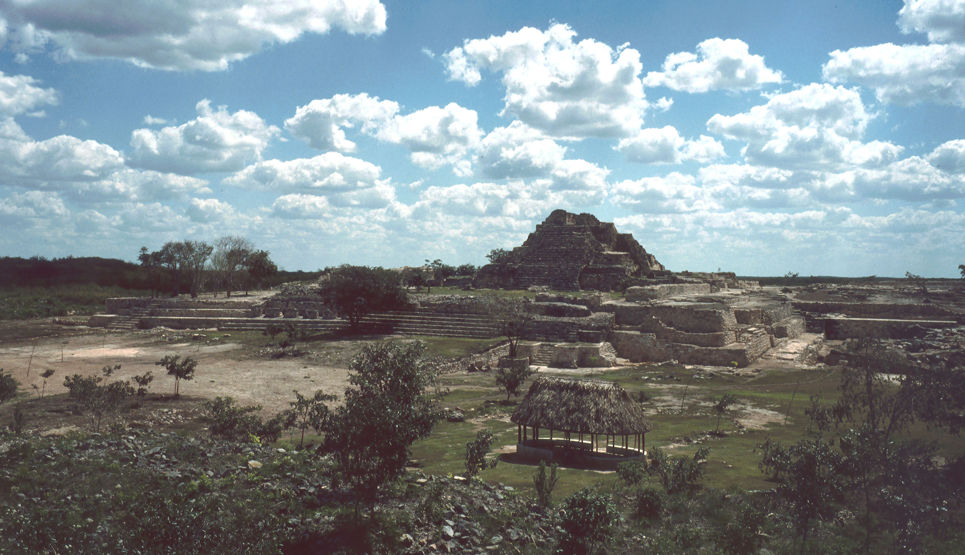 Oxkintoc, Yucatan, Mexico.